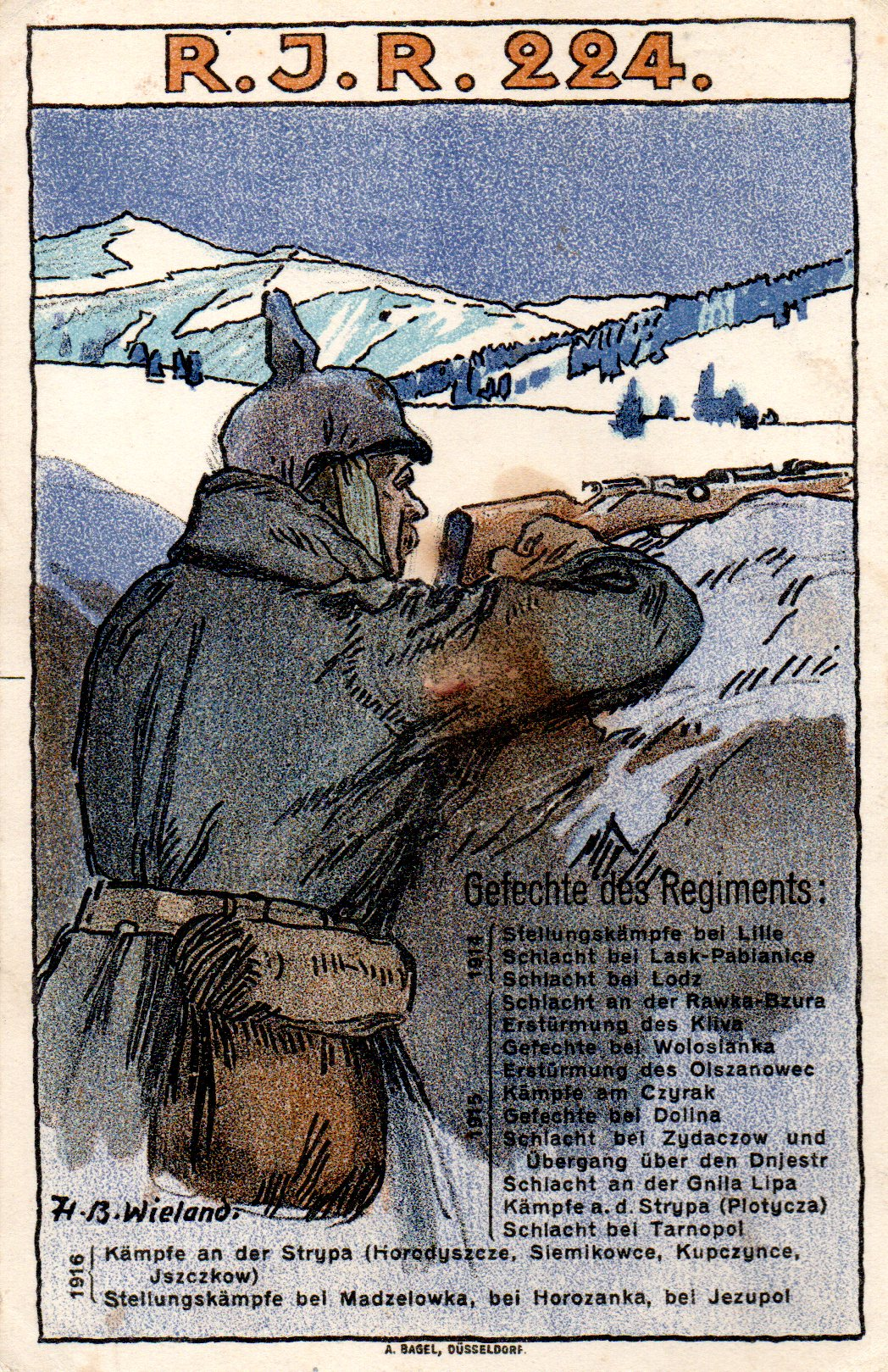 Postkarte des Kriegsmalers Hans Beat Wieland (1867-1945), eigener Scan von eigener alter Postkarte